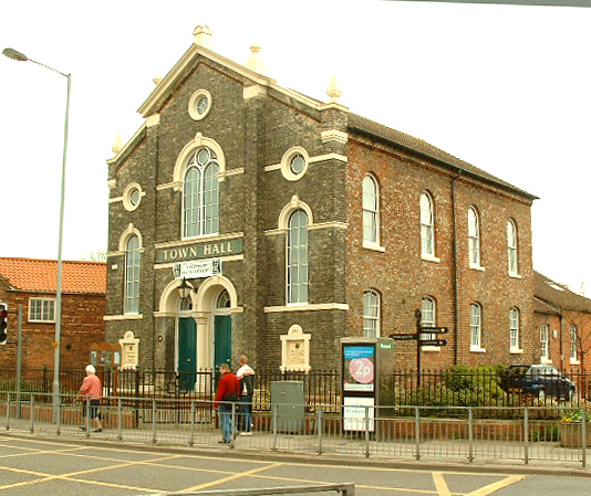 Selby Town Hall The Town Hall used to be a church, then it became a tyre fitting workshop and now the Town hall. A very fine building put to good use